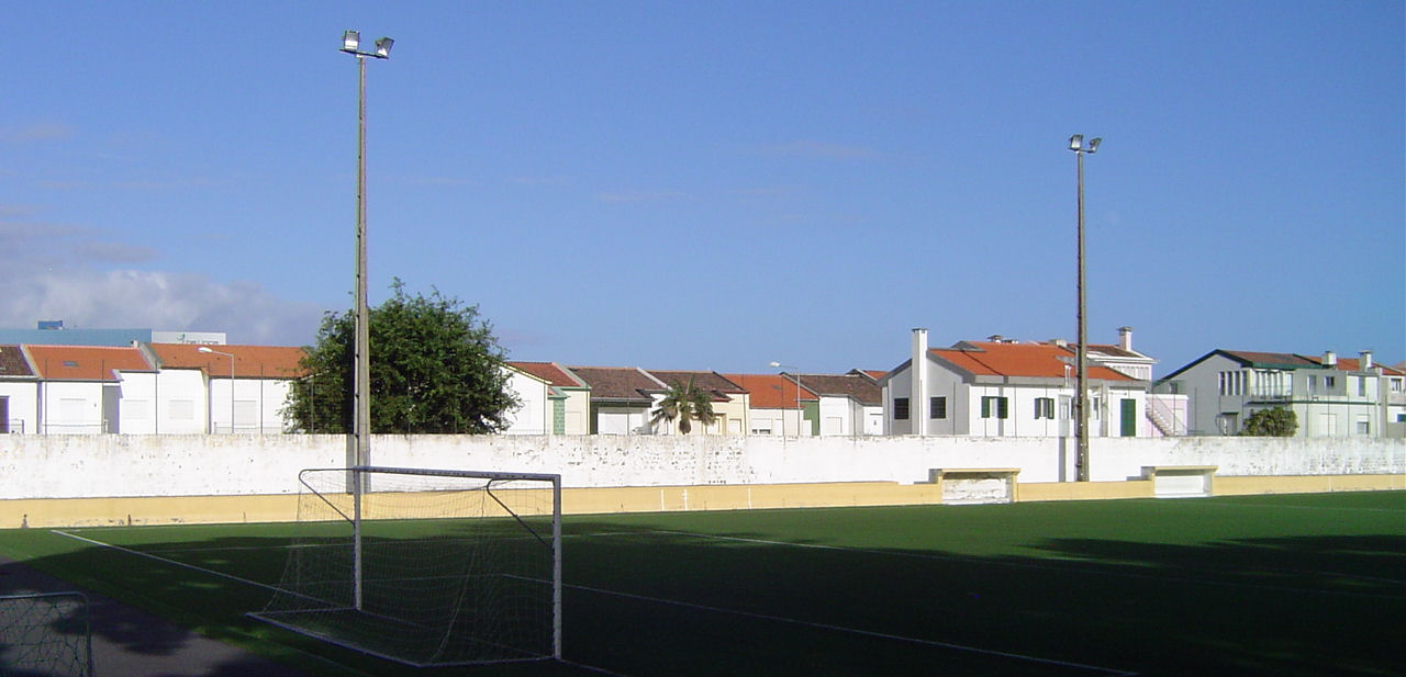 Campo Municipal Jâcome Correia - eastern view. The stadium is used by Capelense Sport Club and Clube União Micaelense, Portuguese football clubs based in Ponta Delgada on the island of São Miguel in the Azores.